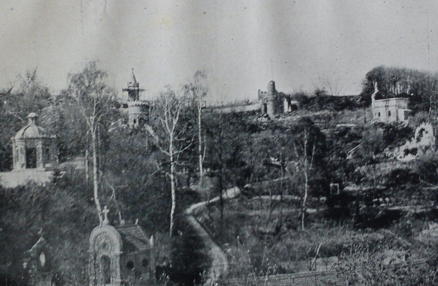 Calvary, Ujscie (Usch), 1910.